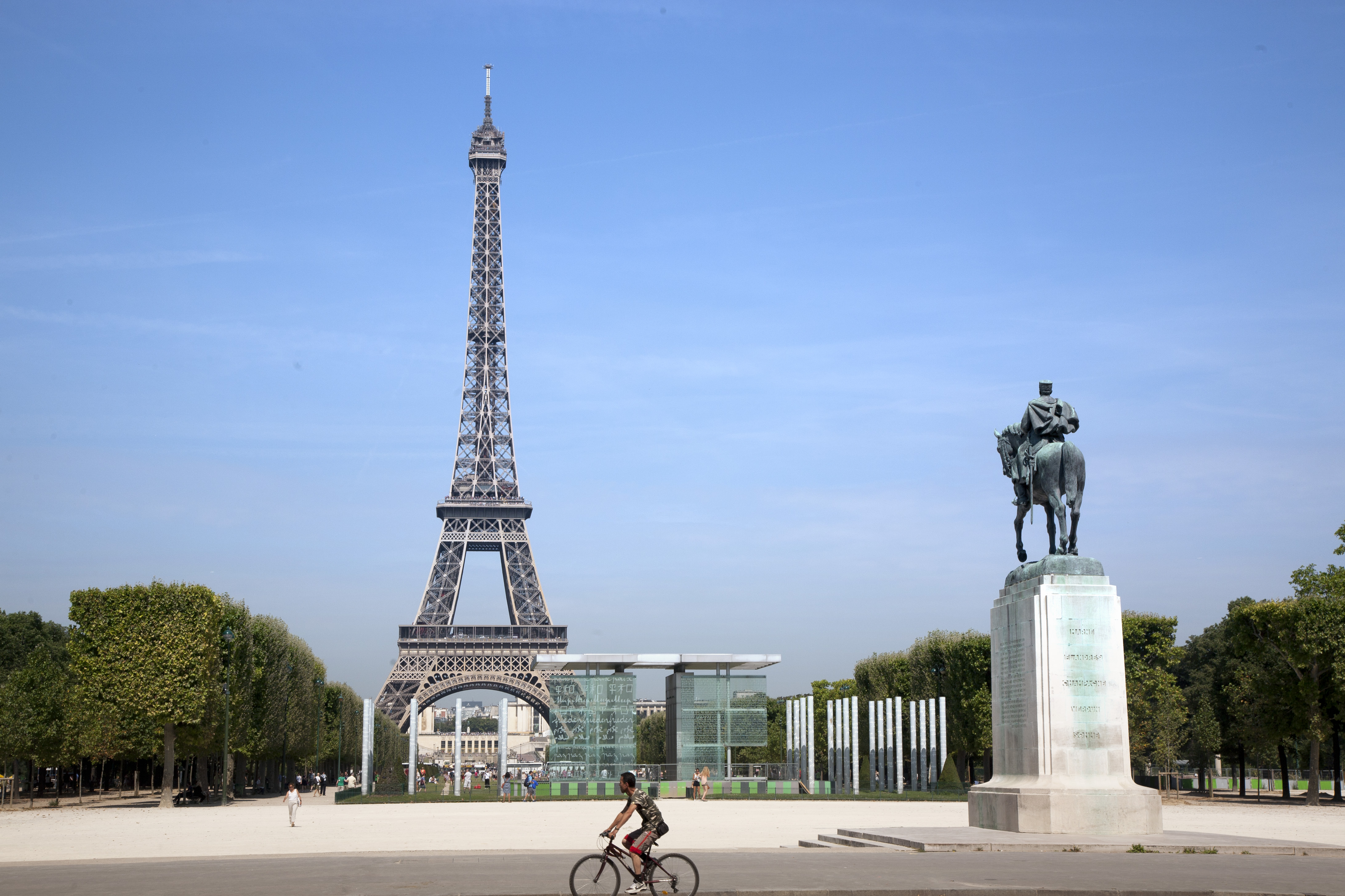 Eiffel Tower from the southeast, Paris.